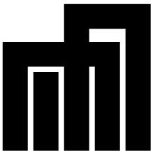 japanese genji-ko yuu-giri